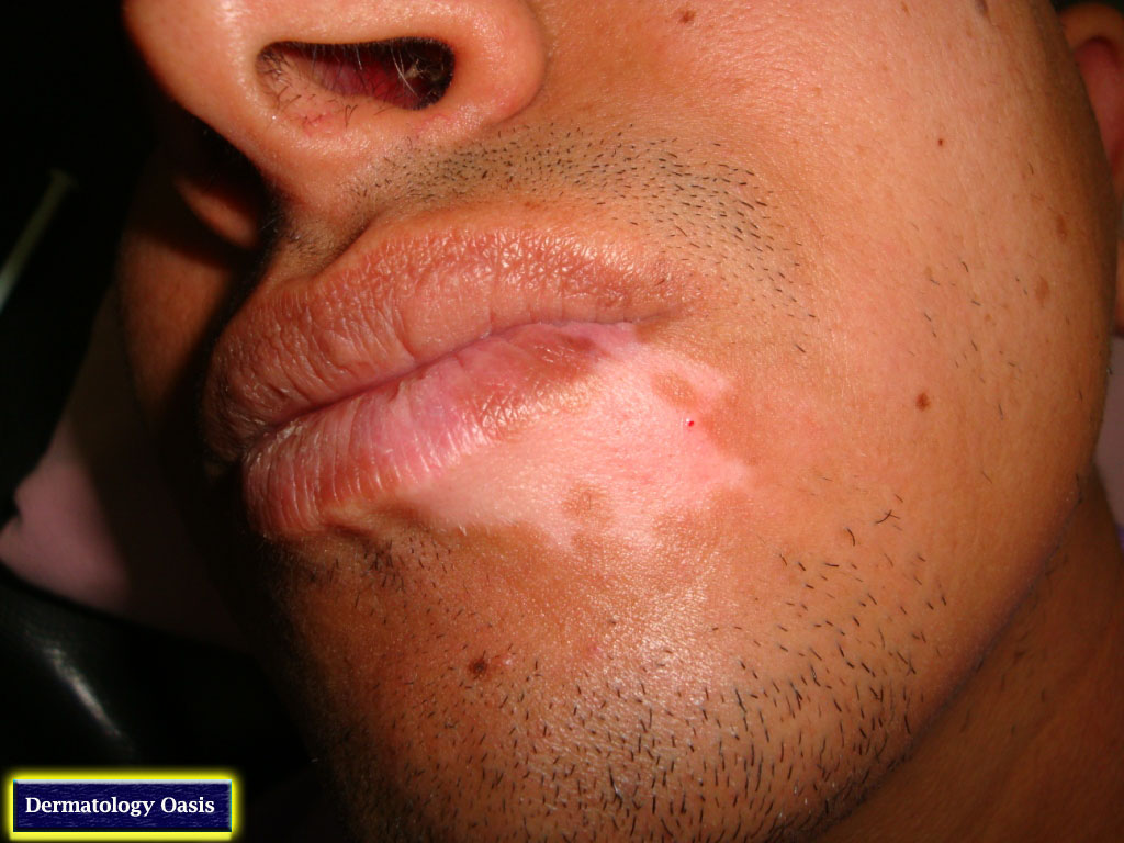 Focal vitiligo